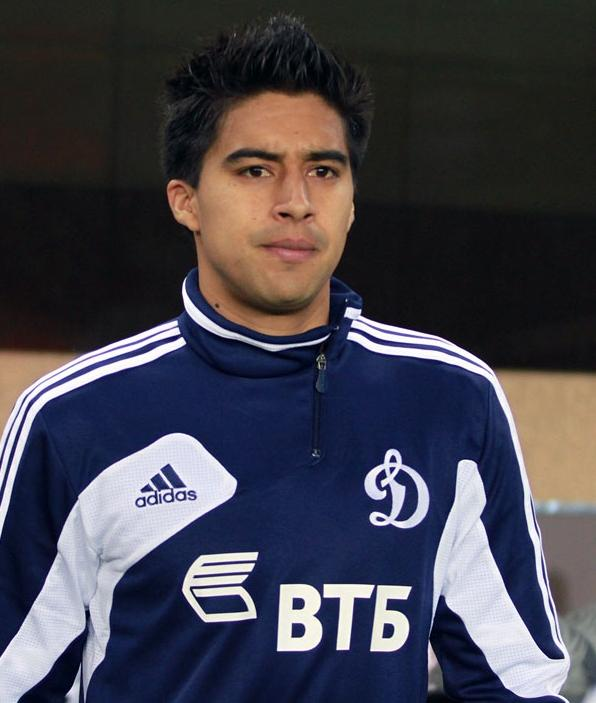 Christian Noboa with FC Dynamo Moscow in 2012.